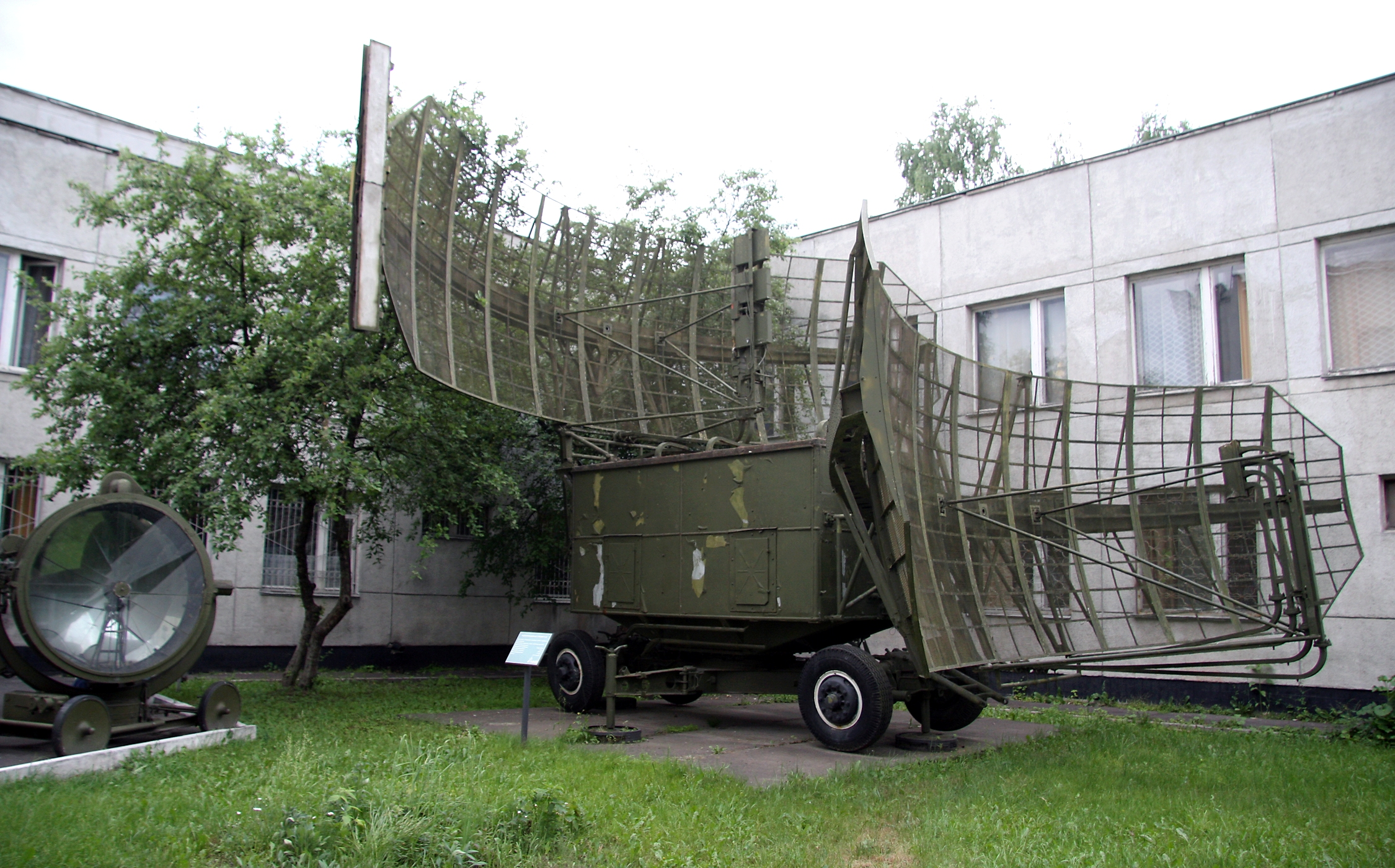 Air Defense History Museum in Zarya in Moscow Oblast.